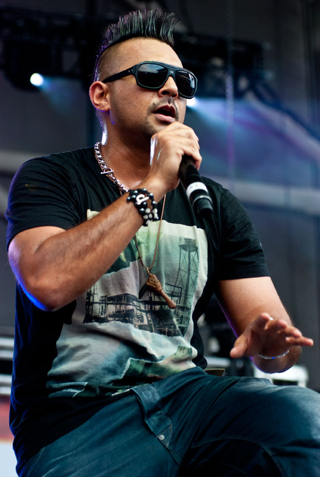 Sean Paul performs at B96 Summerbash on June 16, 2012. Toyota Park, Bridgeview, IL, USA. Photo y Adam Bielawski